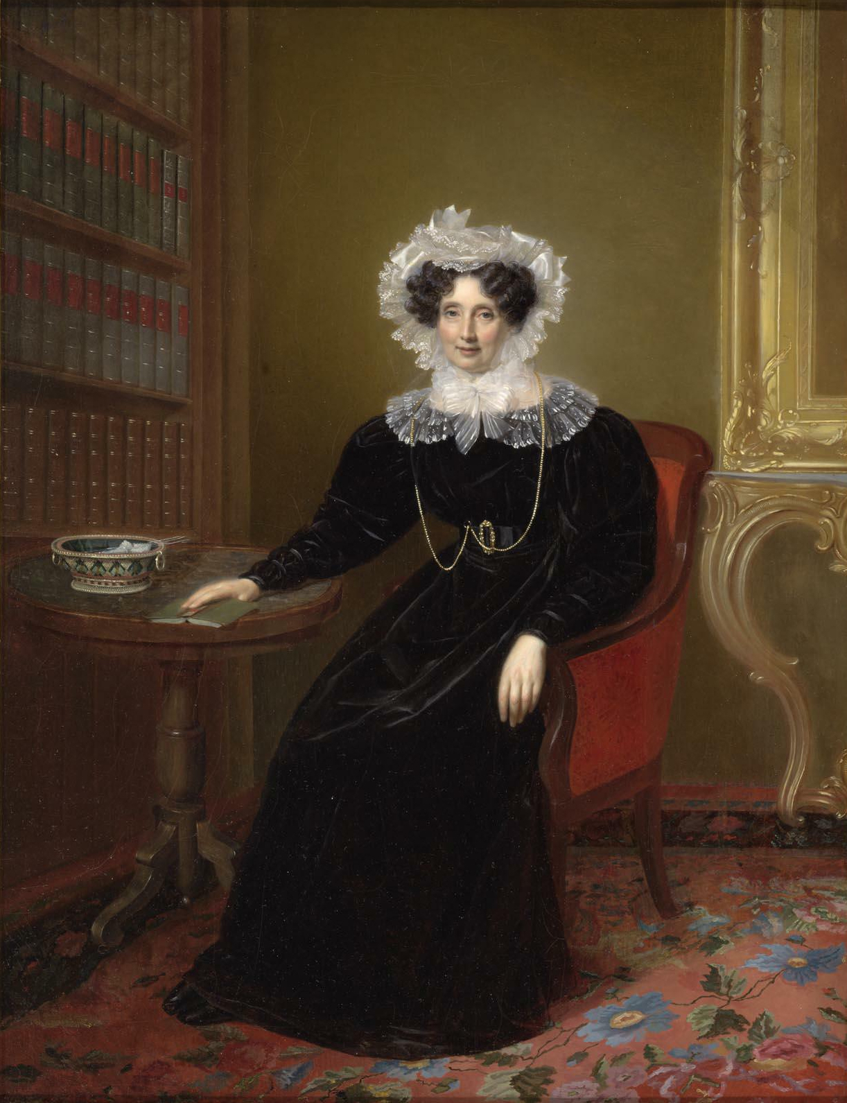 Portrait of Albertine Necker de Saussure (1766 - 1841), Swiss educationlist.